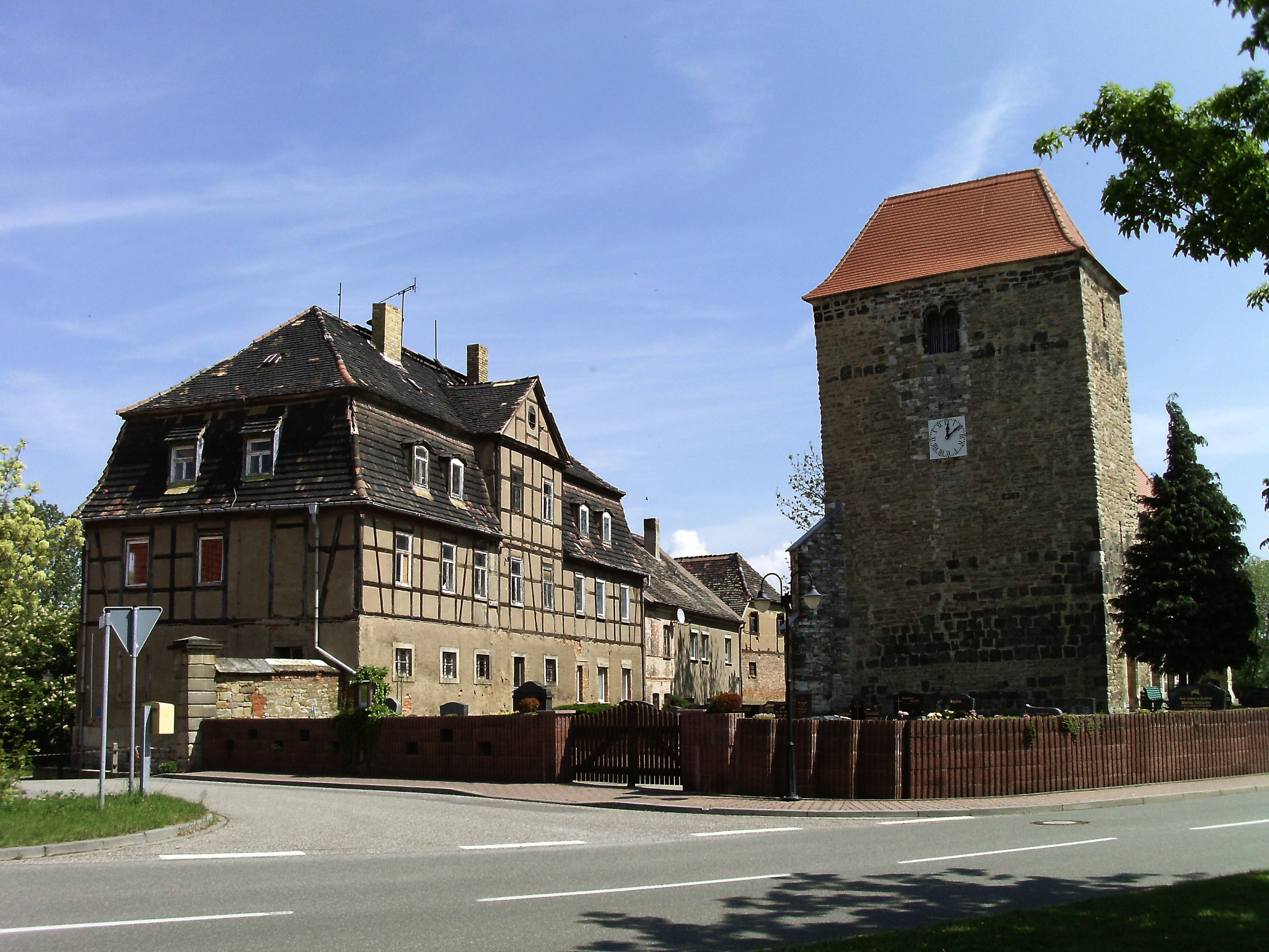 Church and manor house in Kleingörschen (Lützen, district of Burgenlandkreis, Saxony-Anhalt)